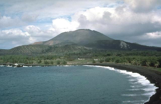 Pagan Island, the largest and one of the most volcanically active of the Northern Mariana Islands.